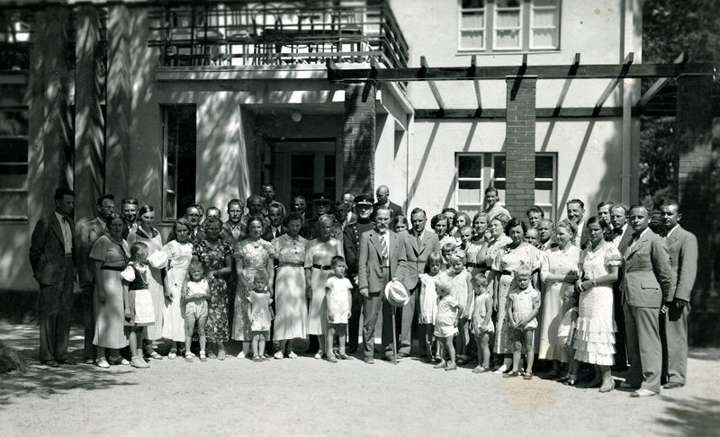 President Antanas Smetona in Palanga, Lithuania.